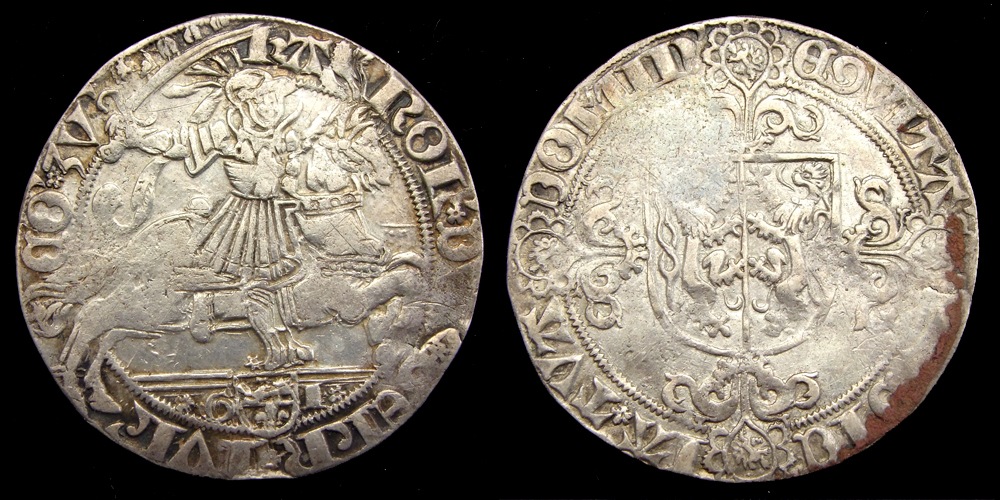 Low Countries, Gelderland, Zutphen. Silver snaphaanschelling